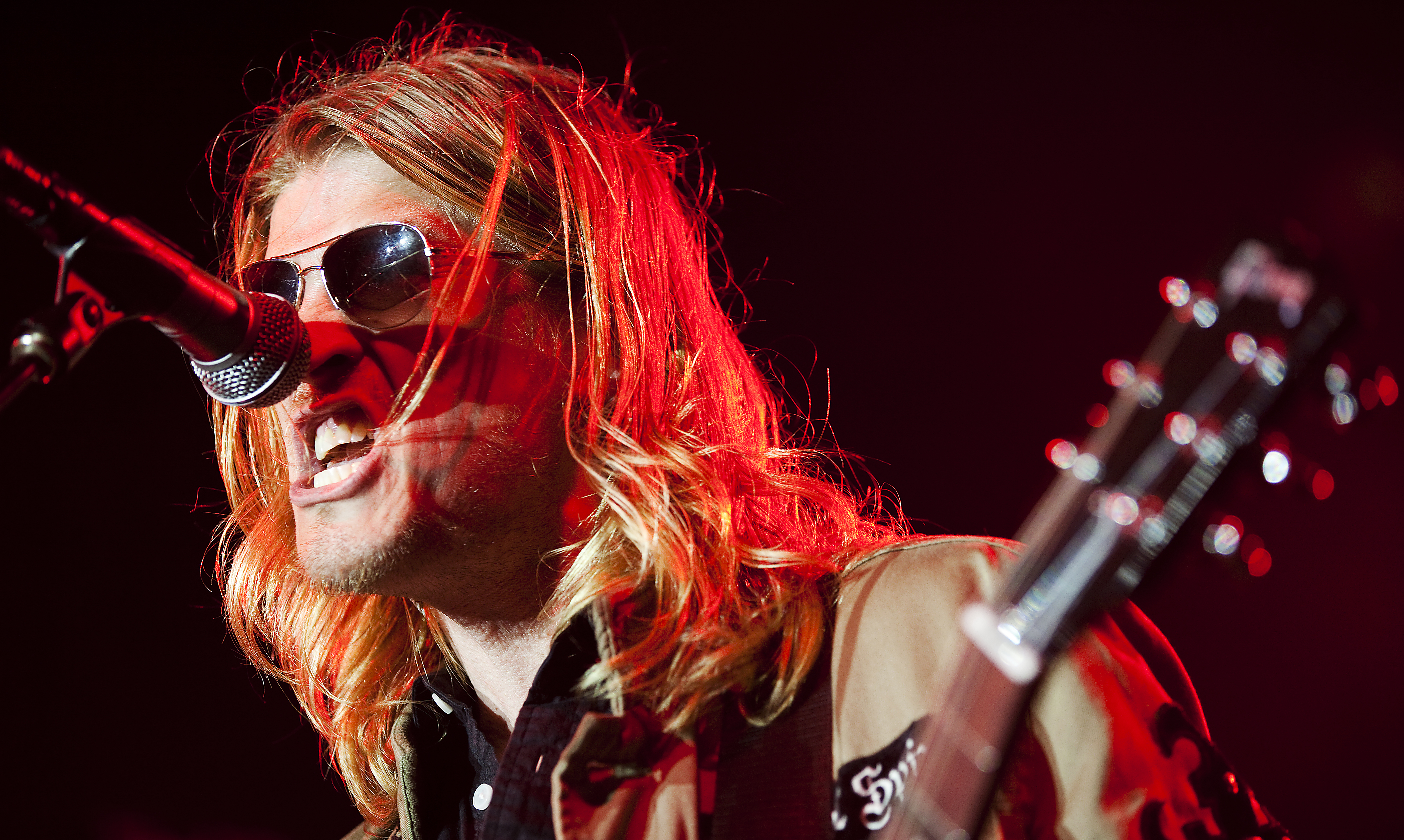 Puddle of Mudd frontman Wes Scantlin screams out lyrics during his rock band's performance at BayFest 2011 on Marine Corps Base Hawaii, July 16, 2011. Celebrating its twenty-second year as Hawaii's largest summer music festival, the three-day event, sponsored by Marine Corps Community Services, opened the base's gates to the local community, featuring concerts by Cecilio and Kapono, Hoobastank, Puddle of Mudd and Joe Nichols in addition to contests, carnival rides, food booths and military static displays. Marine Corps Base Hawaii – Kaneohe Bay Photo by Cpl. Reece E. Lodder Date Taken:07.16.2011 Location:MARINE CORPS BASE HAWAII, HI, US